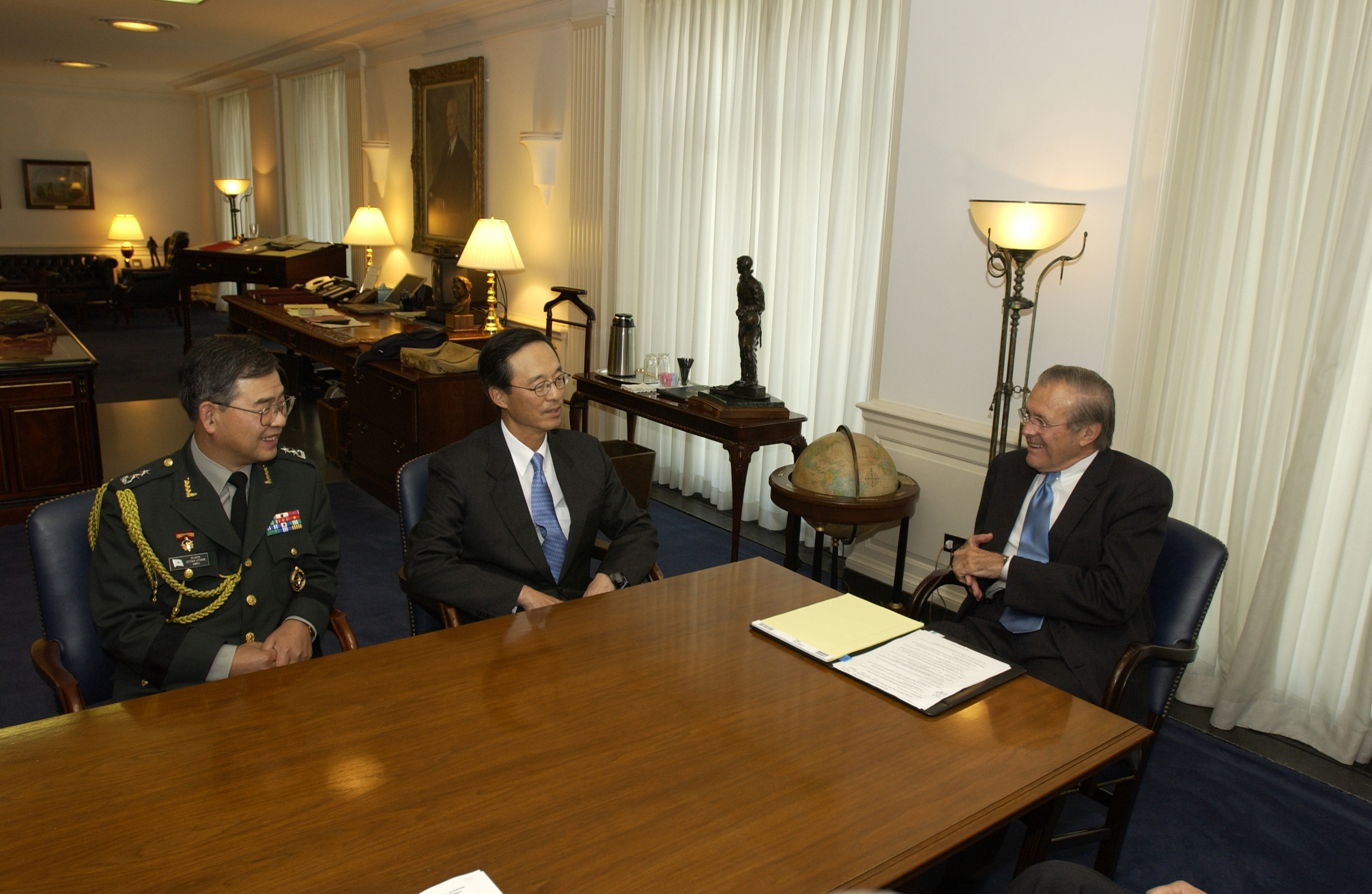 Secretary of Defense Donald H. Rumsfeld (right) meets in his Pentagon office with South Korean Ambassador to the United States Han Sung Joo (center) and Maj. Gen. Moon Young Han (left) on Oct. 1, 2004. The two leaders and their senior advisors met to discuss defense issues of mutual interest.